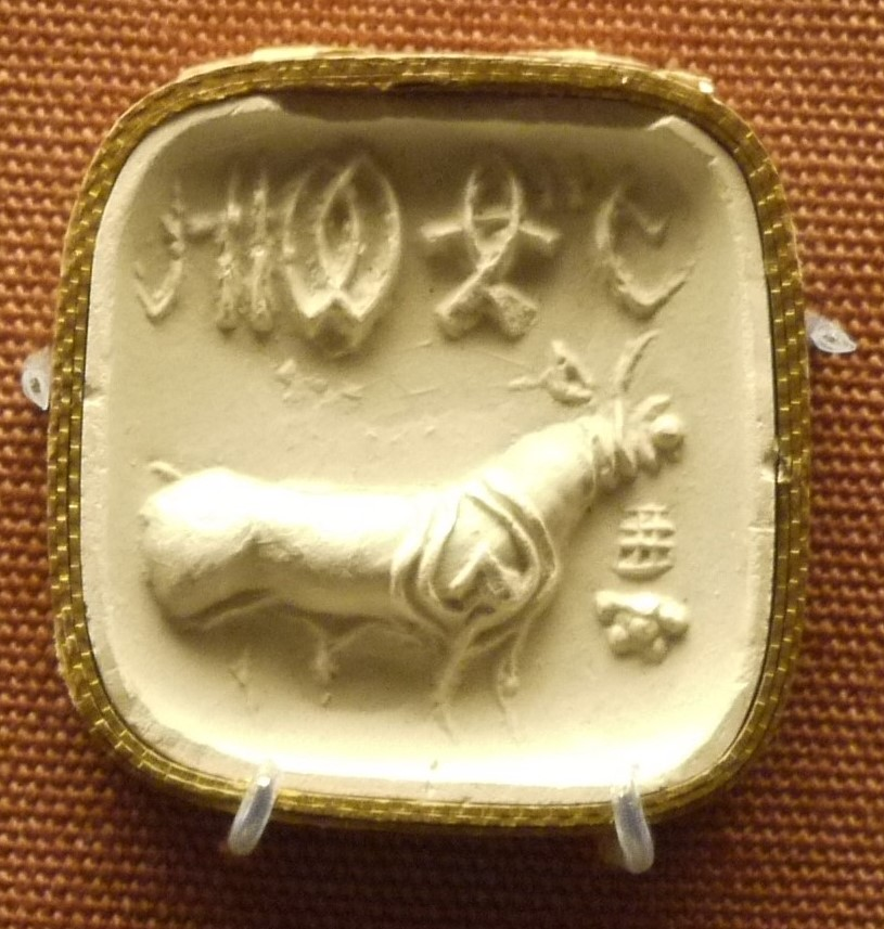 Imprint of an Indus stamp-seal 2500BC-2000BC. This stamp featured in the BBC/BM radio series 'A History of the World in 100 objects